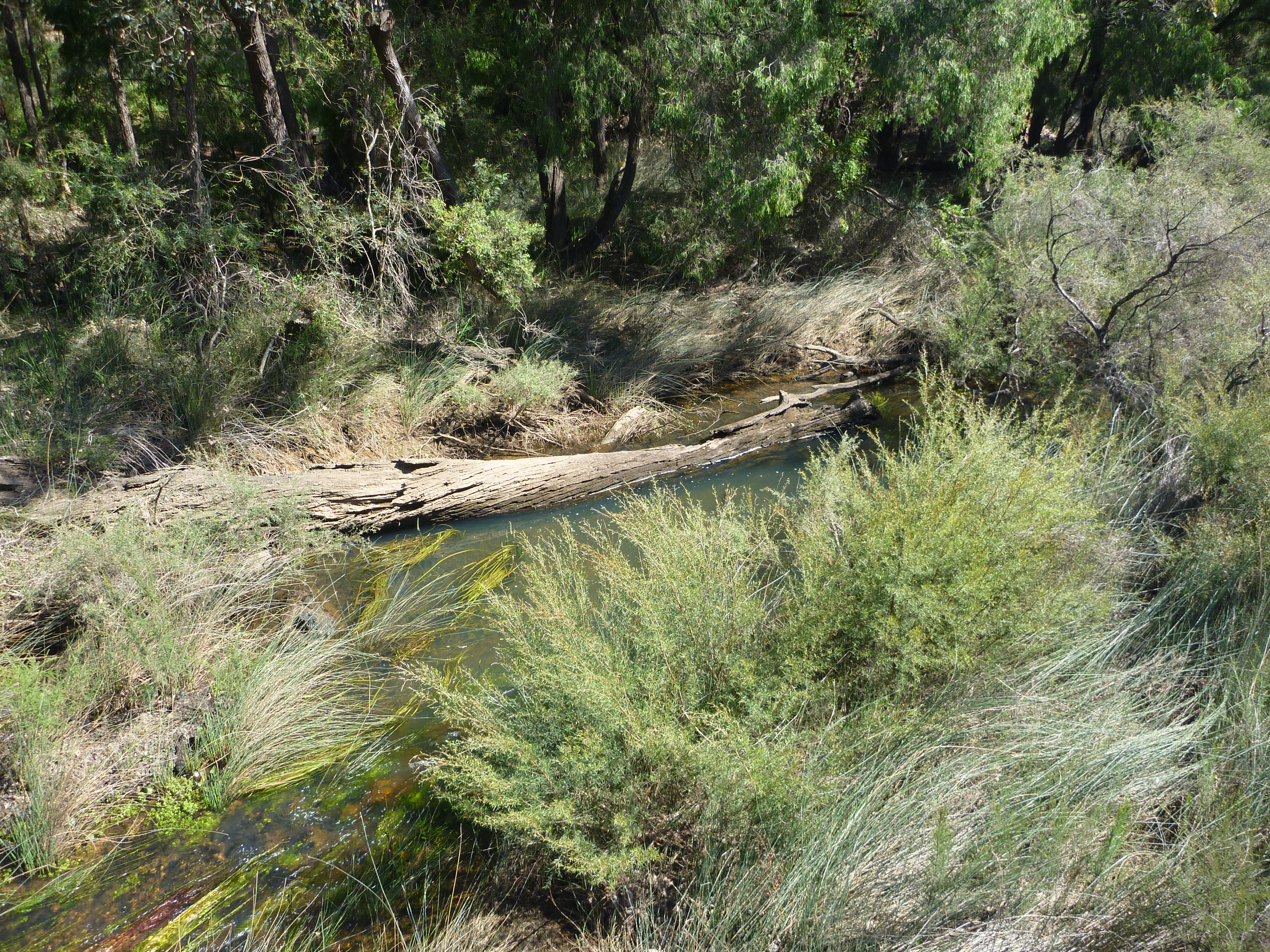 Piture of Carbunup River taken at bridge on Bussell Highway